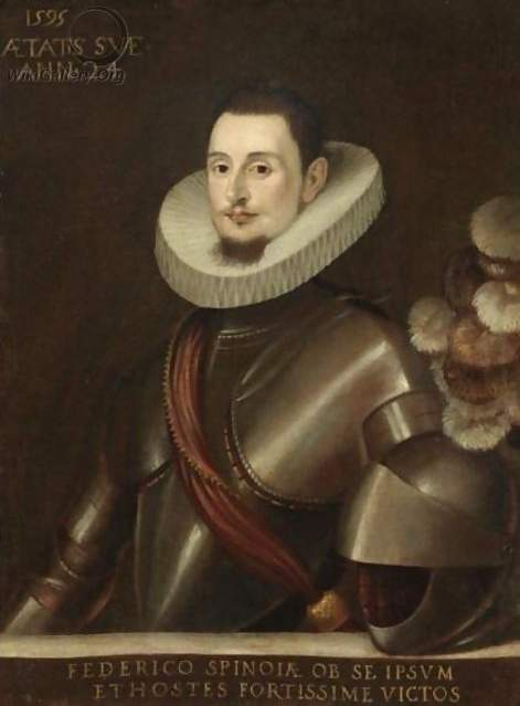 Ritratto Di Federico Spinola